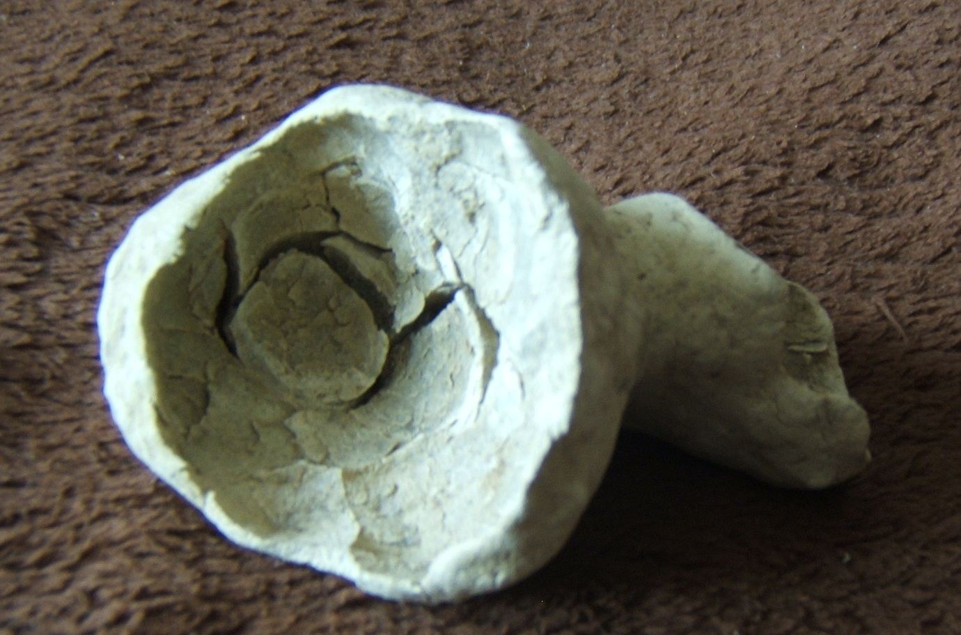 Loess sample from Döbrököz, Hungary